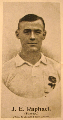 Cigarette card from Taddy of England international and British Isles rugby union player John Edward Raphael. Released in 1906, Raphael is shown in his England rugby jersey (who he represented between 1902 and 1906). Raphael also played First Class cricket with Surrey.